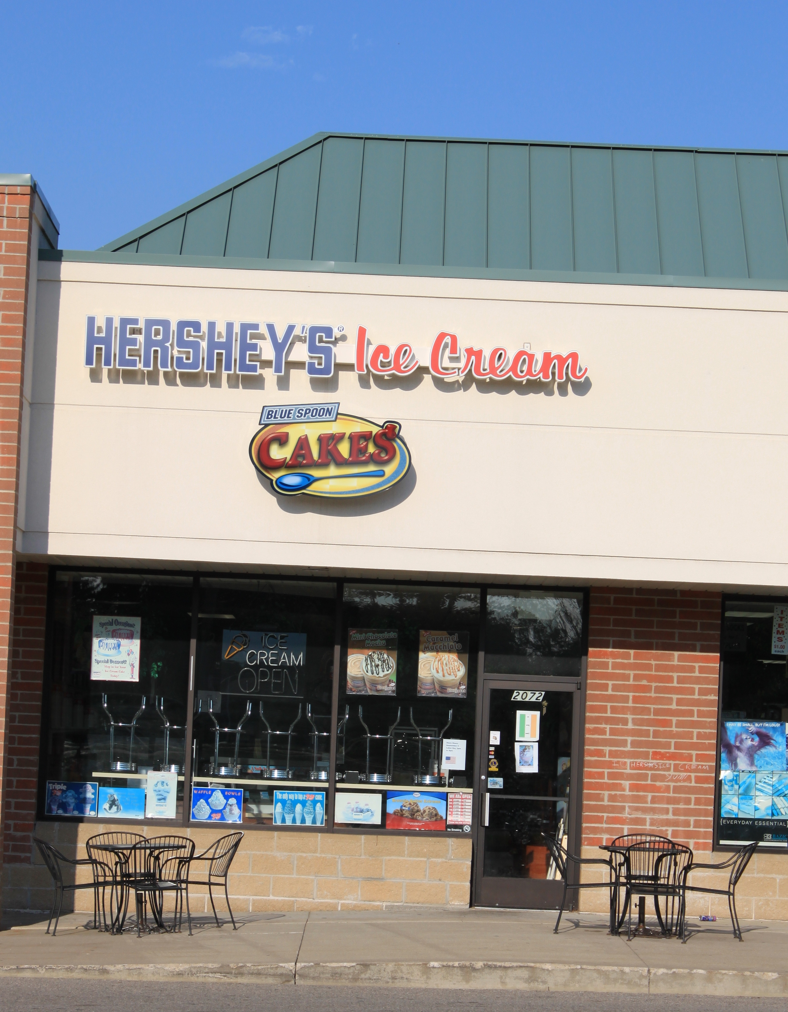 Hershey's ice cream shop, 2072 Whittaker Road, Ypsilanti Township, Michigan